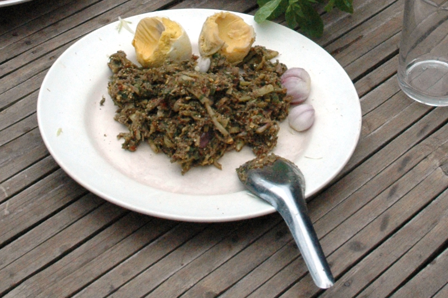 The finished green iguana lunch, ready to serve: * In front and on the right - dishes with iguana meat and boiled iguana eggs * In center - sort of glass noodle with fish sauce and leafy herb * On the left and in most back - green papaya salad * Behind the noodle dish - bowl of pumkin/squash beef soup